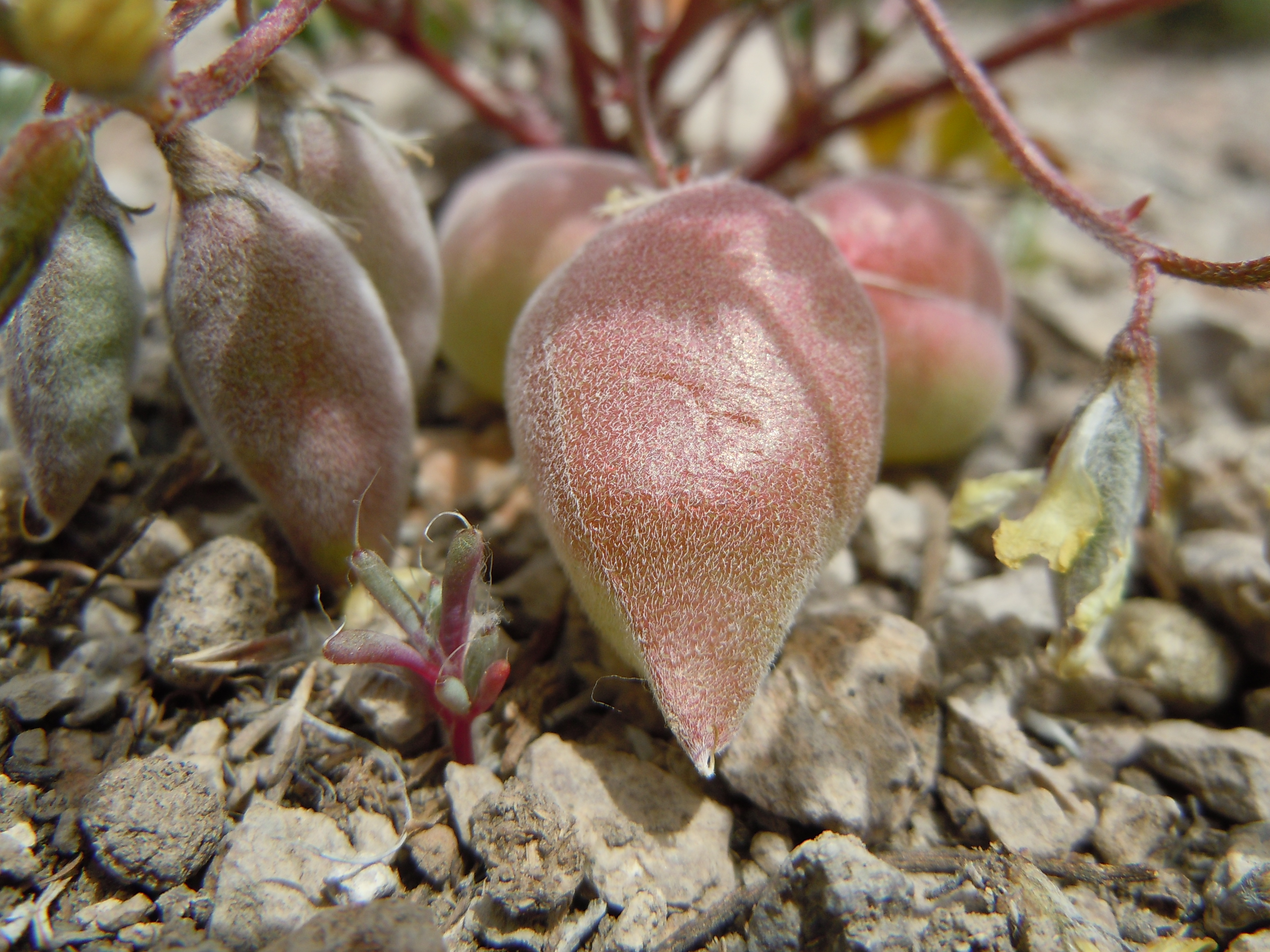 This species is known only on the gravelly more exposed uplands of the south end of the Lemhi Range in this area.